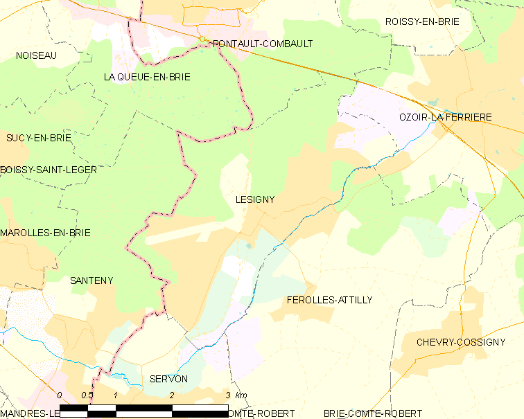 Map of French municipality Lésigny